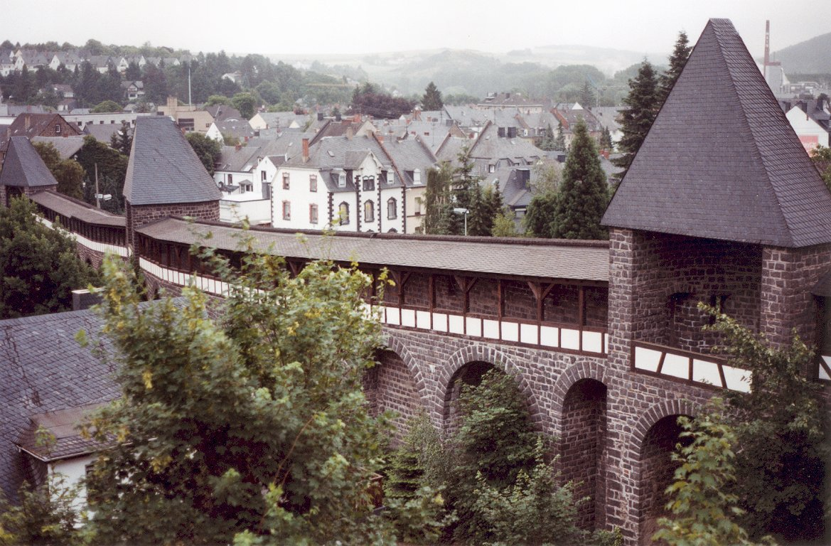 Mayen, defensive wall